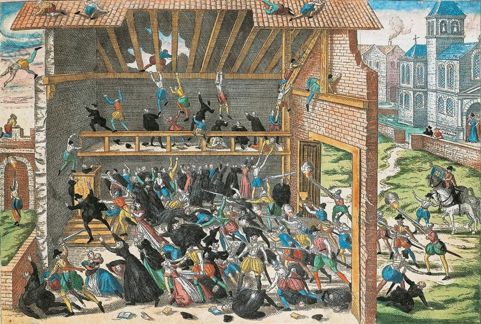 Massacre_de_Vassy_1562_print_by_Hogenberg_end_of_16th_century.